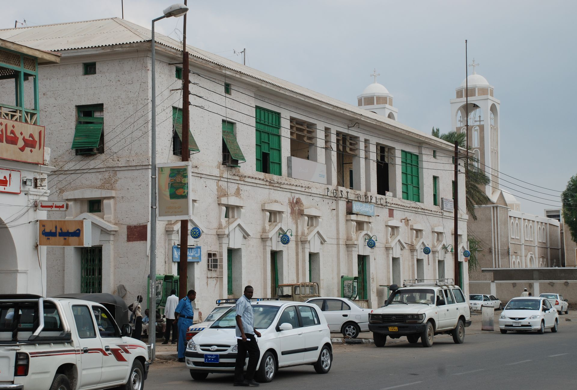 Port Sudan, colonial post office, behind Coptic church